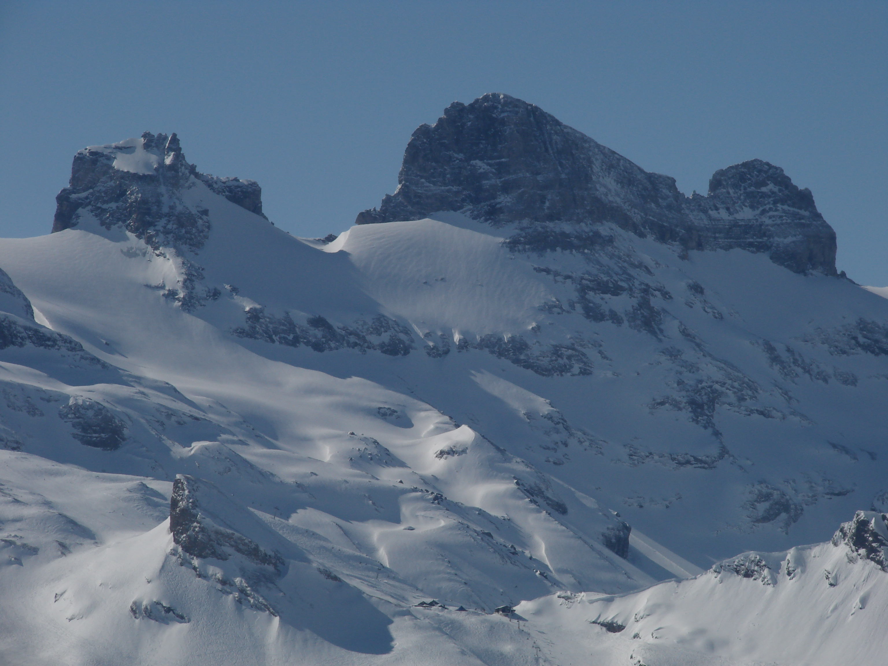 Wendenstöcke, at the bottom in the foreground the Jochpass